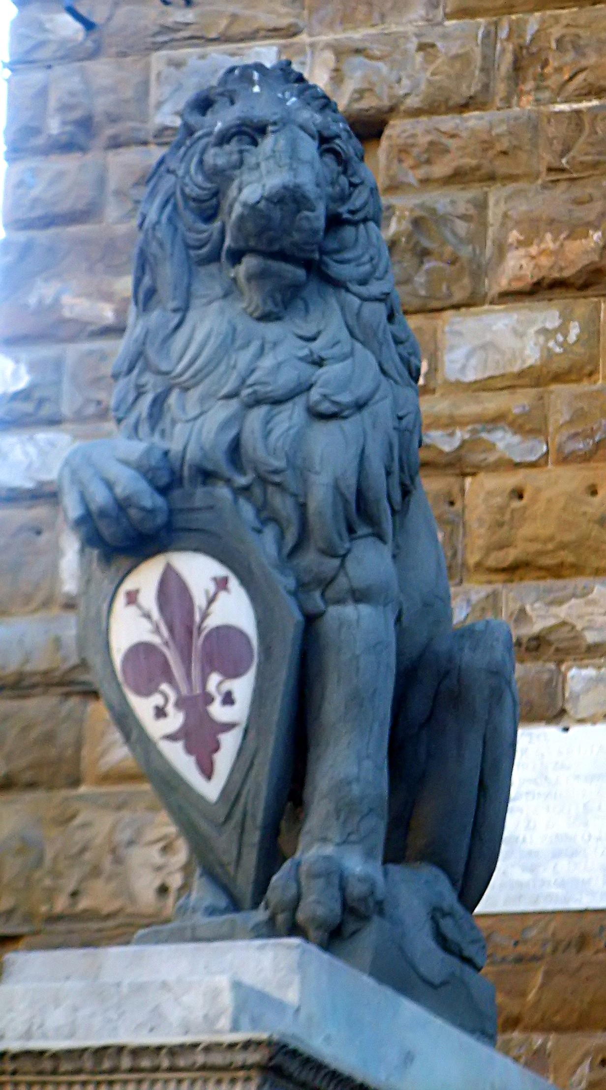 Modern copy of Donatello's Marzocco in Florence, italy